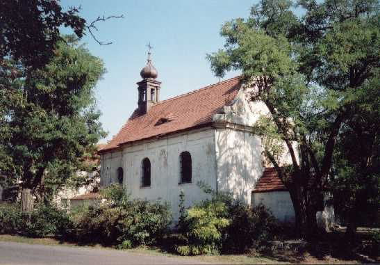 Village of Kostice, Northern Czechia